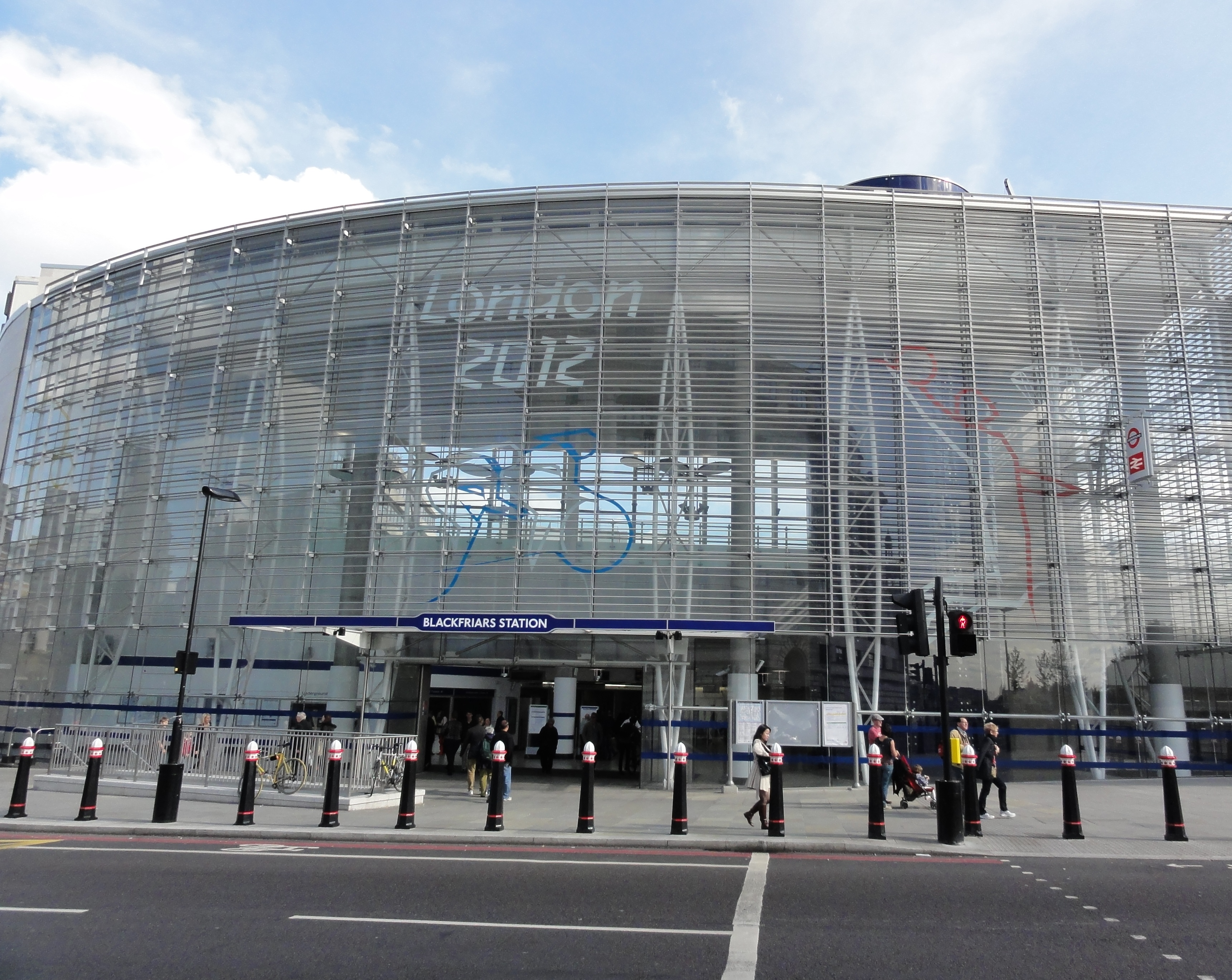 The newly redeveloped Blackfriars Station in London, showing 'London 2012' Olympics markings.